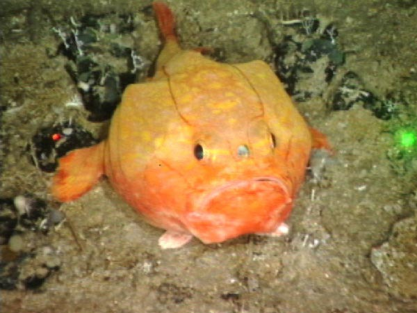 Redeye gaper (Chaunax stigmaeus) at a depth of 1,860 feet on the Charleston Bump.